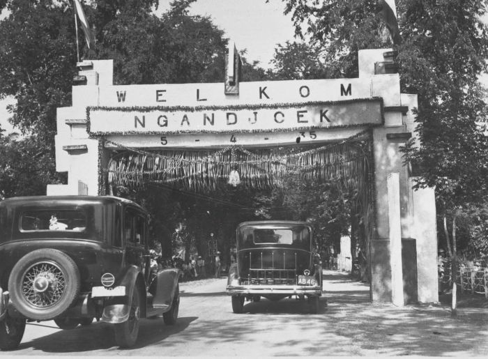 Cars passing a welcome gate during a visit of Governor-General B.C. de Jonge